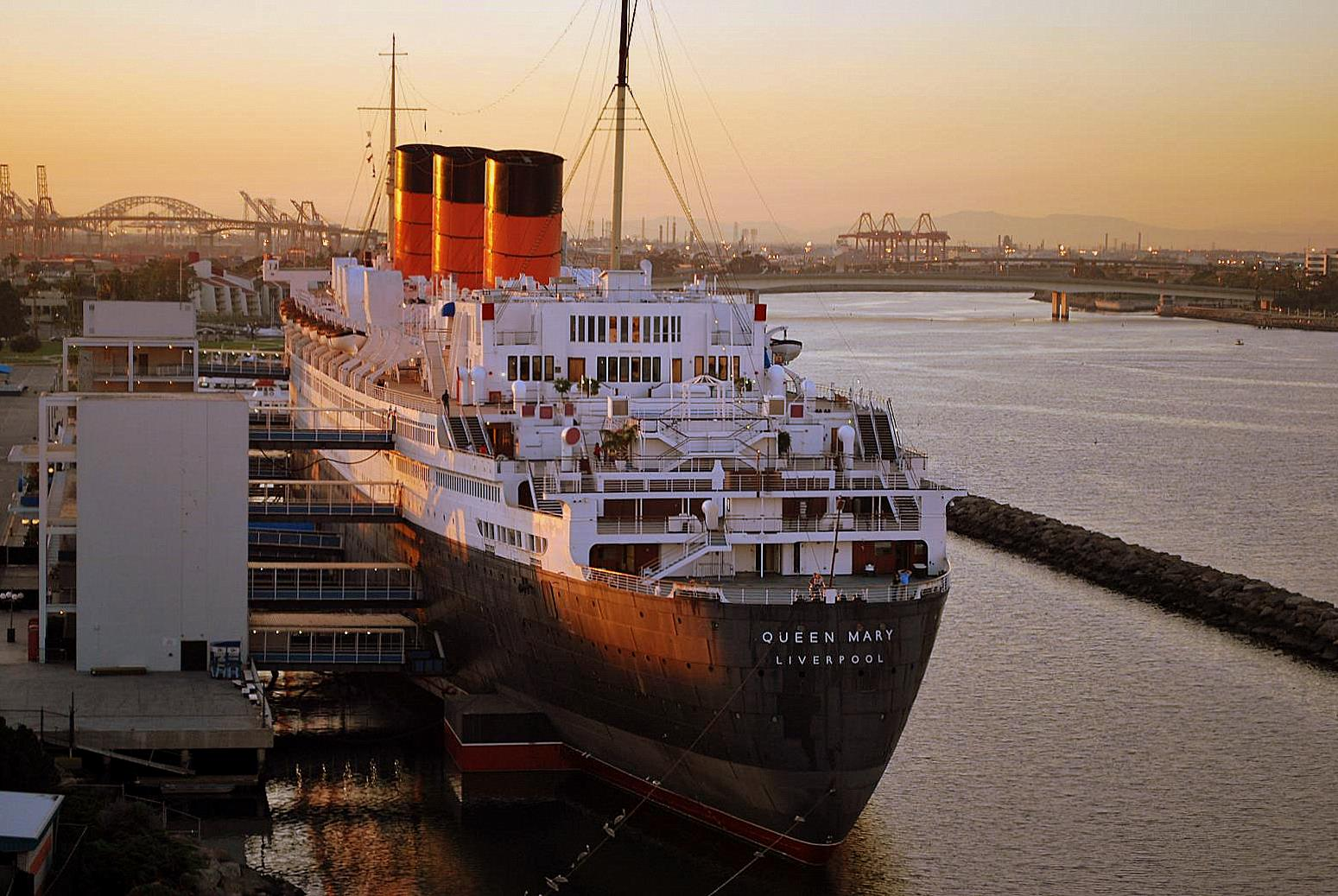 RMS Queen Mary docked in Long Beach